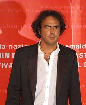 Alejandro González Iñarritu at the San Sebastian International Film Festival 2006